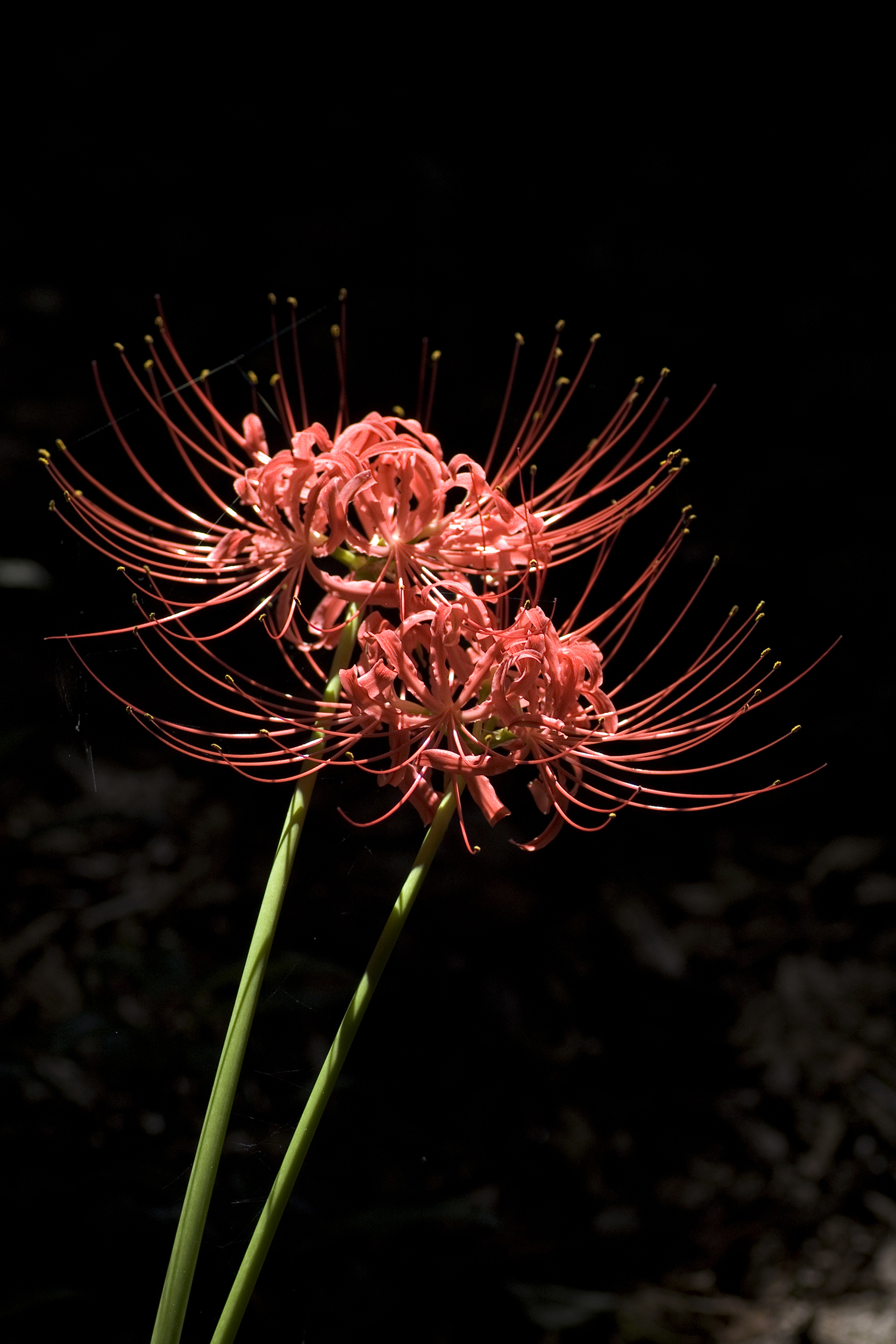 (red) spider lily